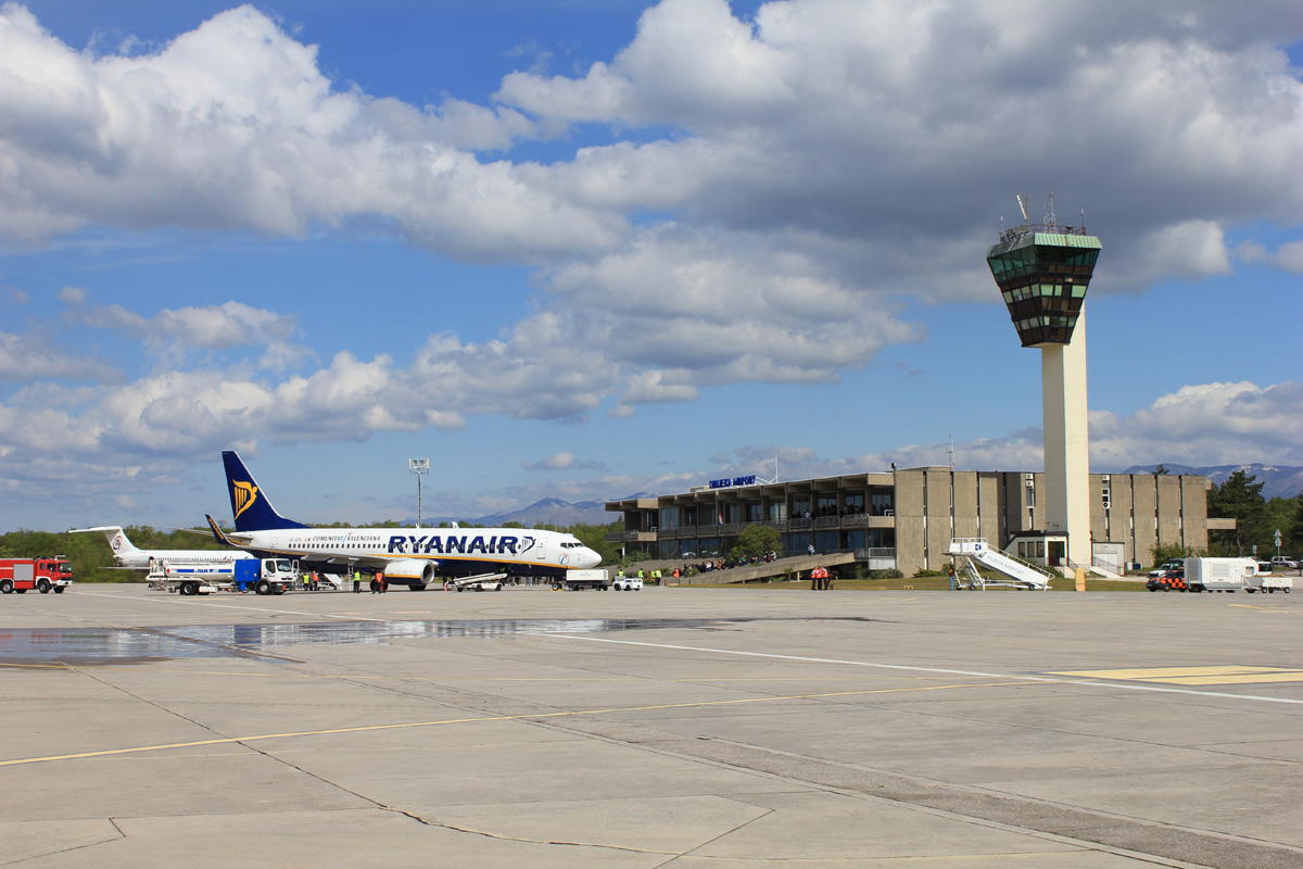 Overview of Rijeka airport from the apron.